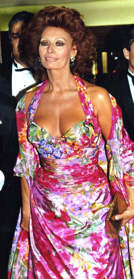 Sophia Loren in Paris at the César awards ceremony